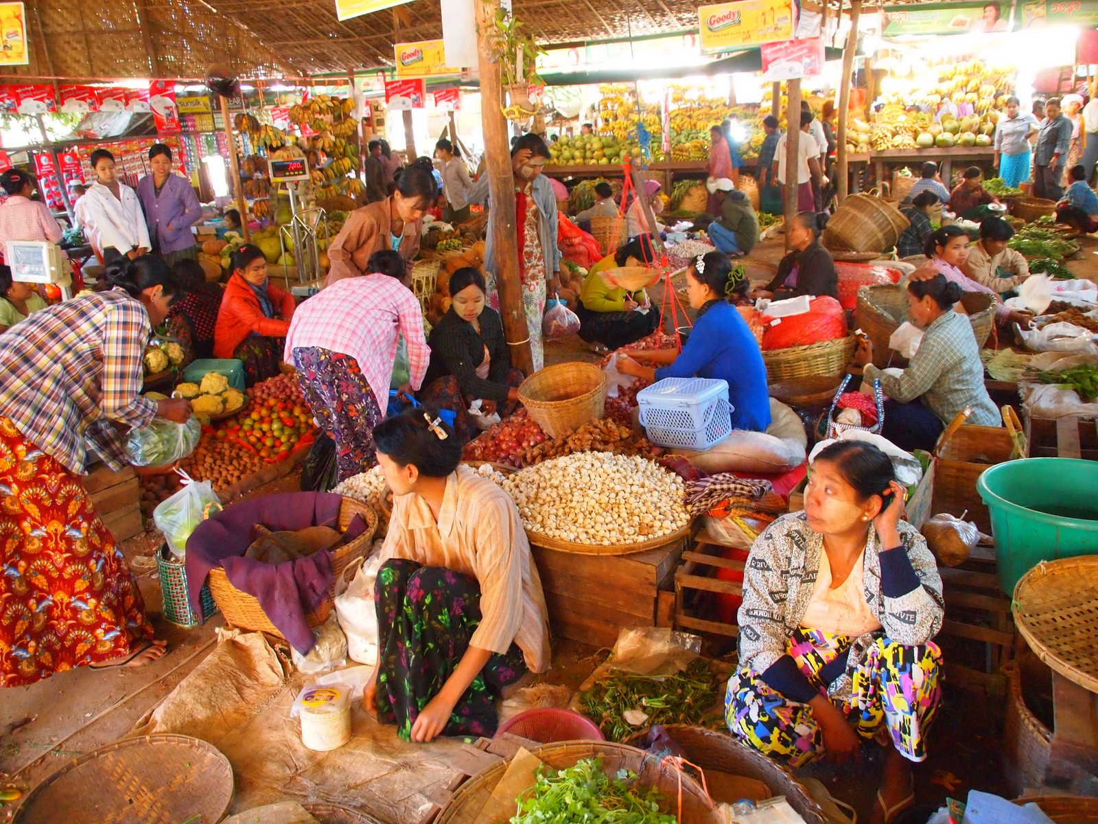 A market in Nyaung Shwe city.